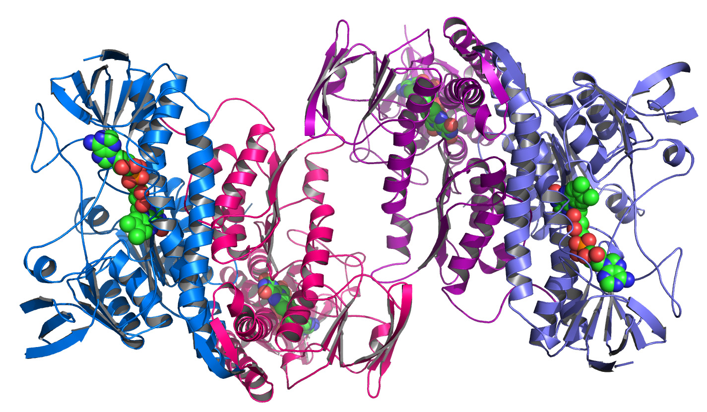 Friday, July 17, 2009---Andrzej Joachimiak and colleagues at Argonne's Midwest Center for Structural Genomics deposited the consortium's 1,000th protein structure into the Protein Data Bank. This structure represents a dehydrogenase enzyme from the bacteria Colwellia psychrerythraea. The enzyme is capable of generating harmful reactive oxygen species and has been implicated in neurodegeneration, ischemia-reperfusion, cancer and several other disorders. Read the full story.